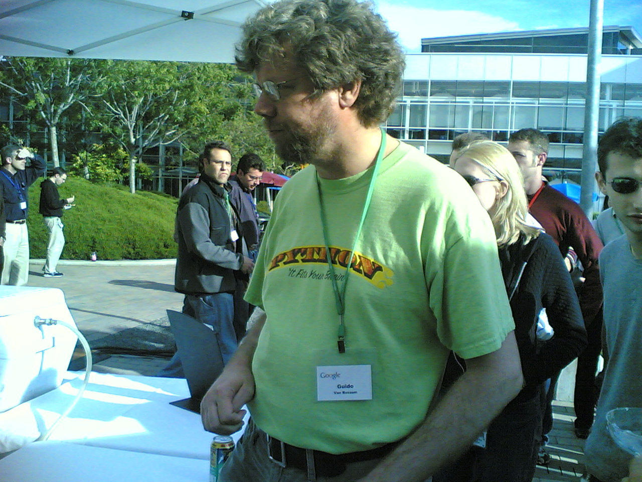 Guido van Rossum, 2001, San Francisco